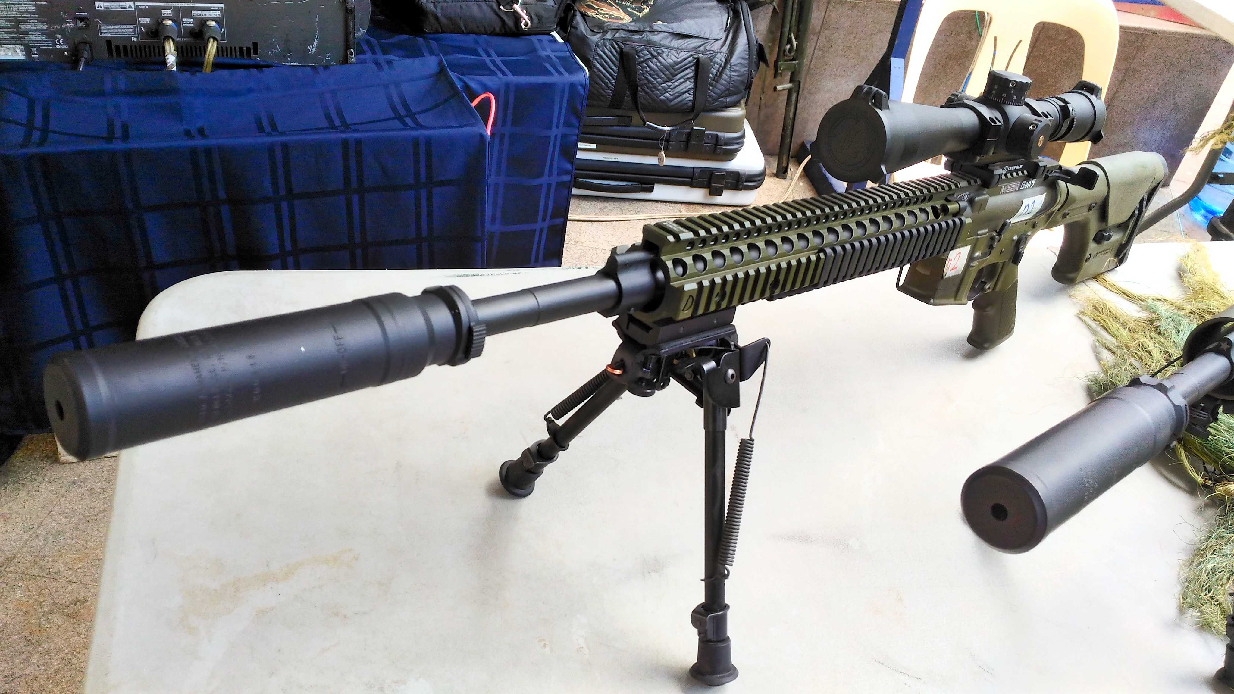 A Marine Scout Sniper Rifle (MSSR) Gen 5 made by the Government Arsenal (GA). Photo taken during the Armed Forces of the Philippines (AFP) 2016 Anniversary Exhibit at the Bonifacio Highstreet Activity Center.